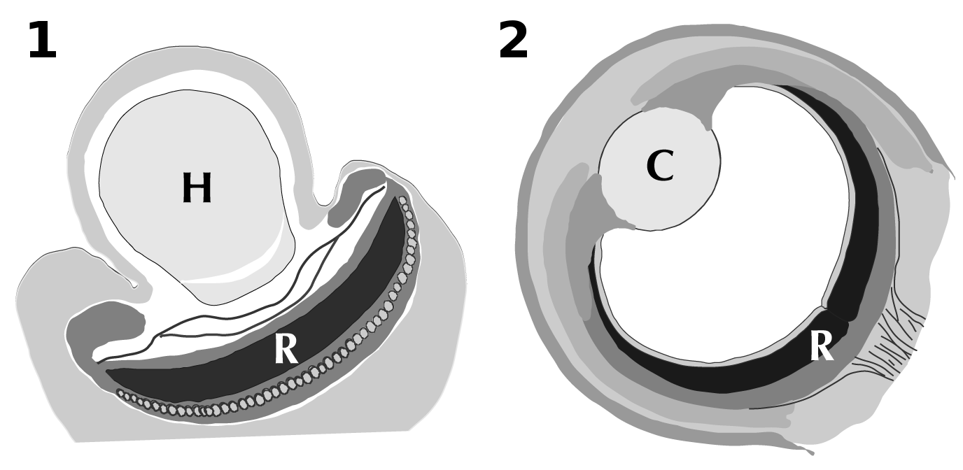 Diagram illustrating structural relationships between the warnowiid oscelloid (1) and the vertebrate eye (2). Indicated structures: hyalosome (H), retinal body/retina (R), crystallin lens (C). Simplified version containing only panels A and F from Supplementary Figure 1 of Hayakawa S, Takaku Y, Hwang JS, Horiguchi T, Suga H, et al. (2015) Function and Evolutionary Origin of Unicellular Camera-Type Eye Structure. PLoS ONE 10(3): e0118415.